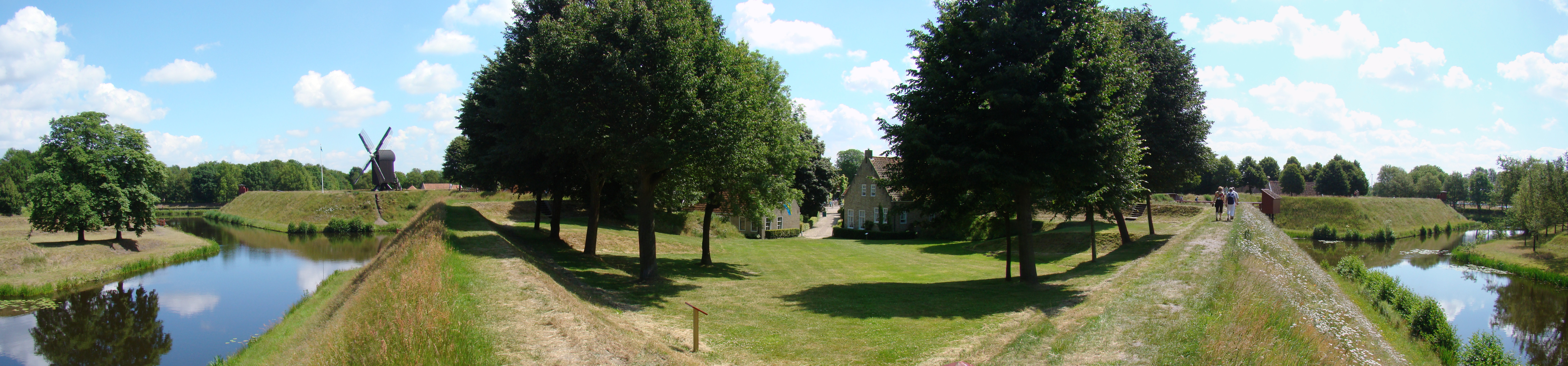 Impressions of Bourtange, Netherlands panorama zicht vanaf bastion